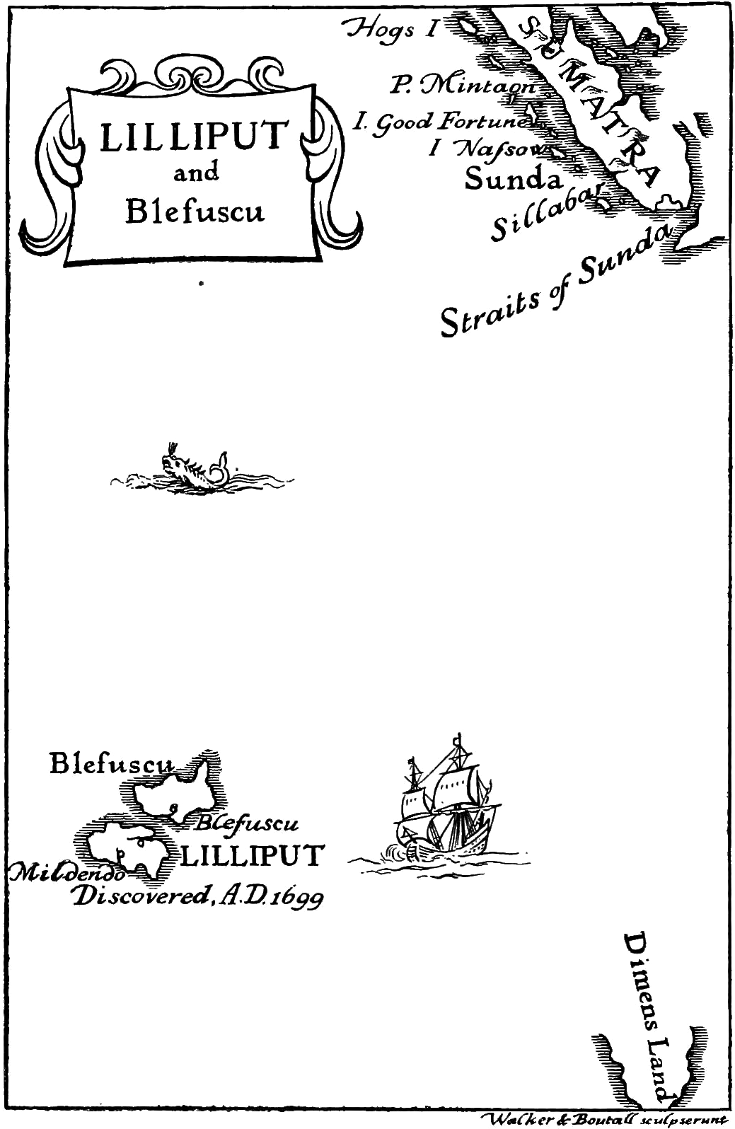 Lilliput and Blefuscu